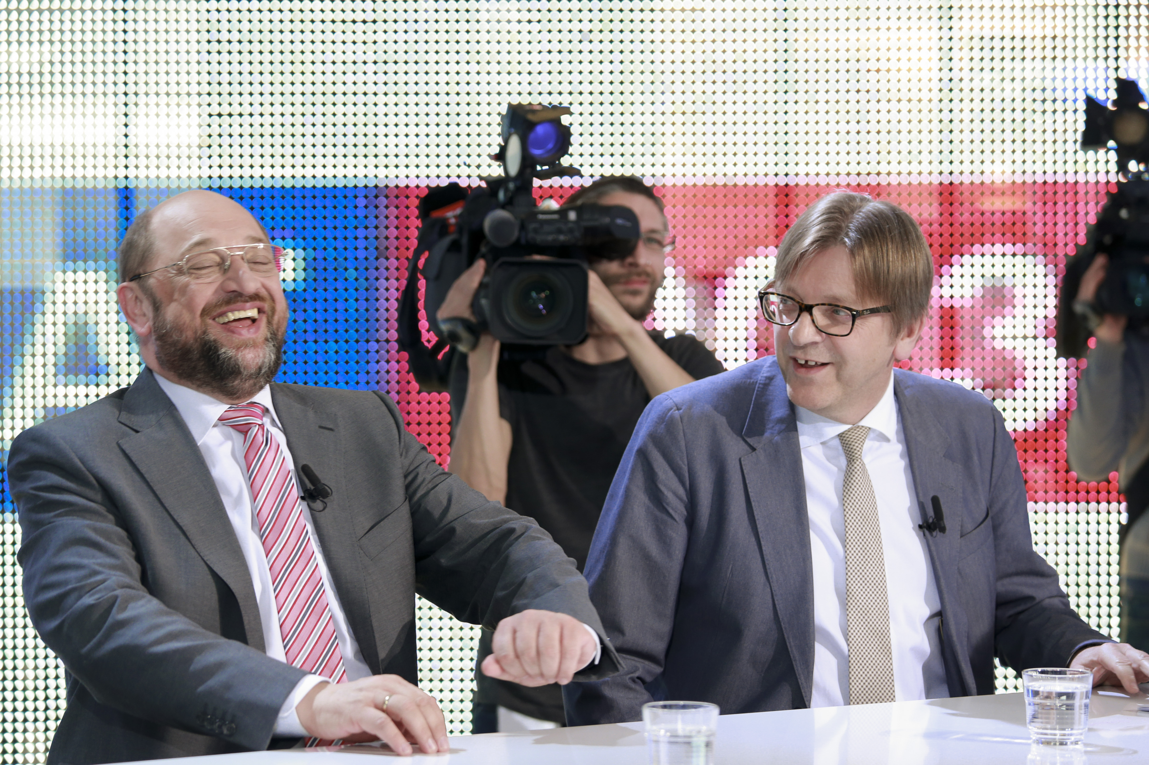 Who will be the next president of the European Commission? And how will he – or she – deal with the big election issues, like mobility, energy and unemployment? With just weeks to go before the EU-wide election in May, Euranet Plus talk directly with the top candidates. On April 29, the presidential hopefuls came together to answer these questions and more, outlining their plans for the next five years. Guests - Jean-Claude Juncker (European People’s Party), - Ska Keller (European Green Party), - Martin Schulz (Party of European Socialists) and - Guy Verhofstadt (Alliance of Liberals and Democrats for Europe) Moderators: - Brian Maguire - Ahinara Bascuñana López The videos, audios and all the details about the Big Crunch debate at